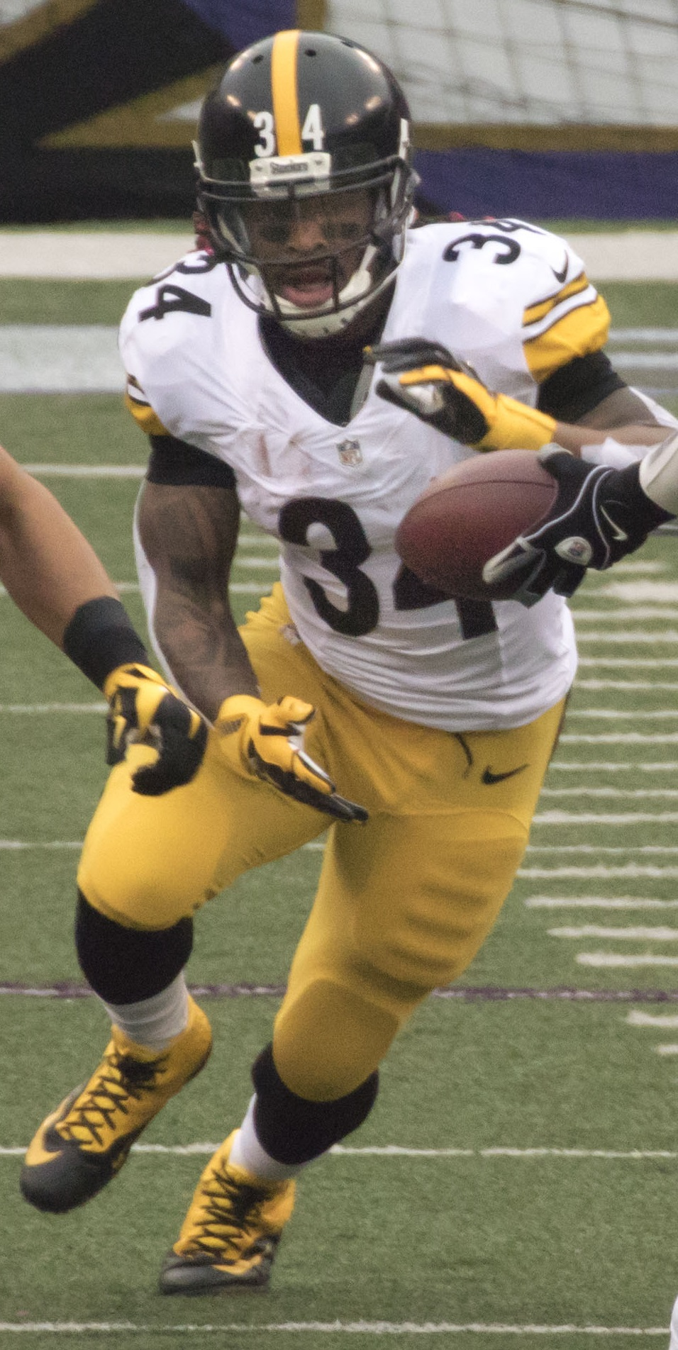 Steelers at Ravens 12/27/15